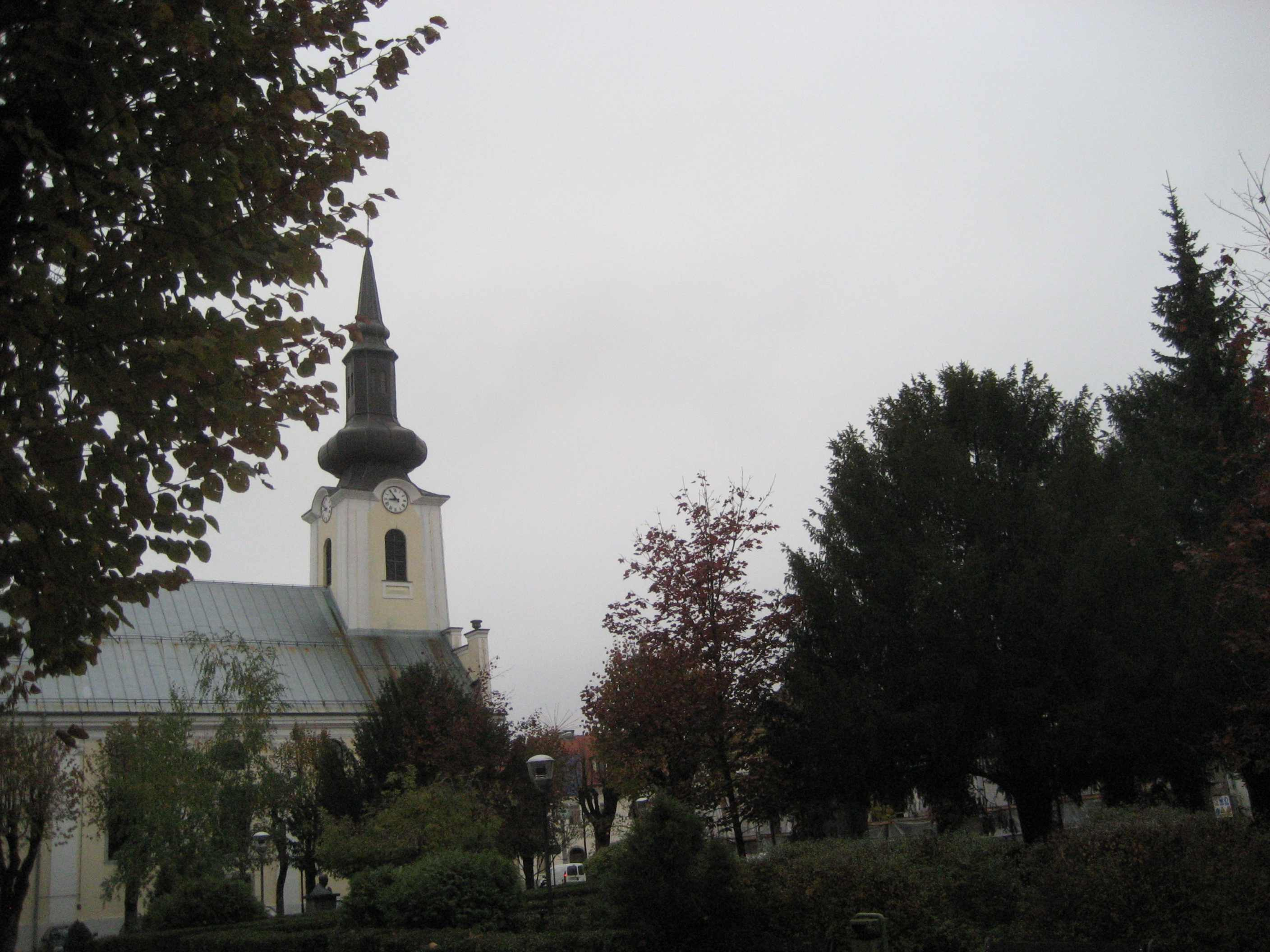 Gospic, Croatia